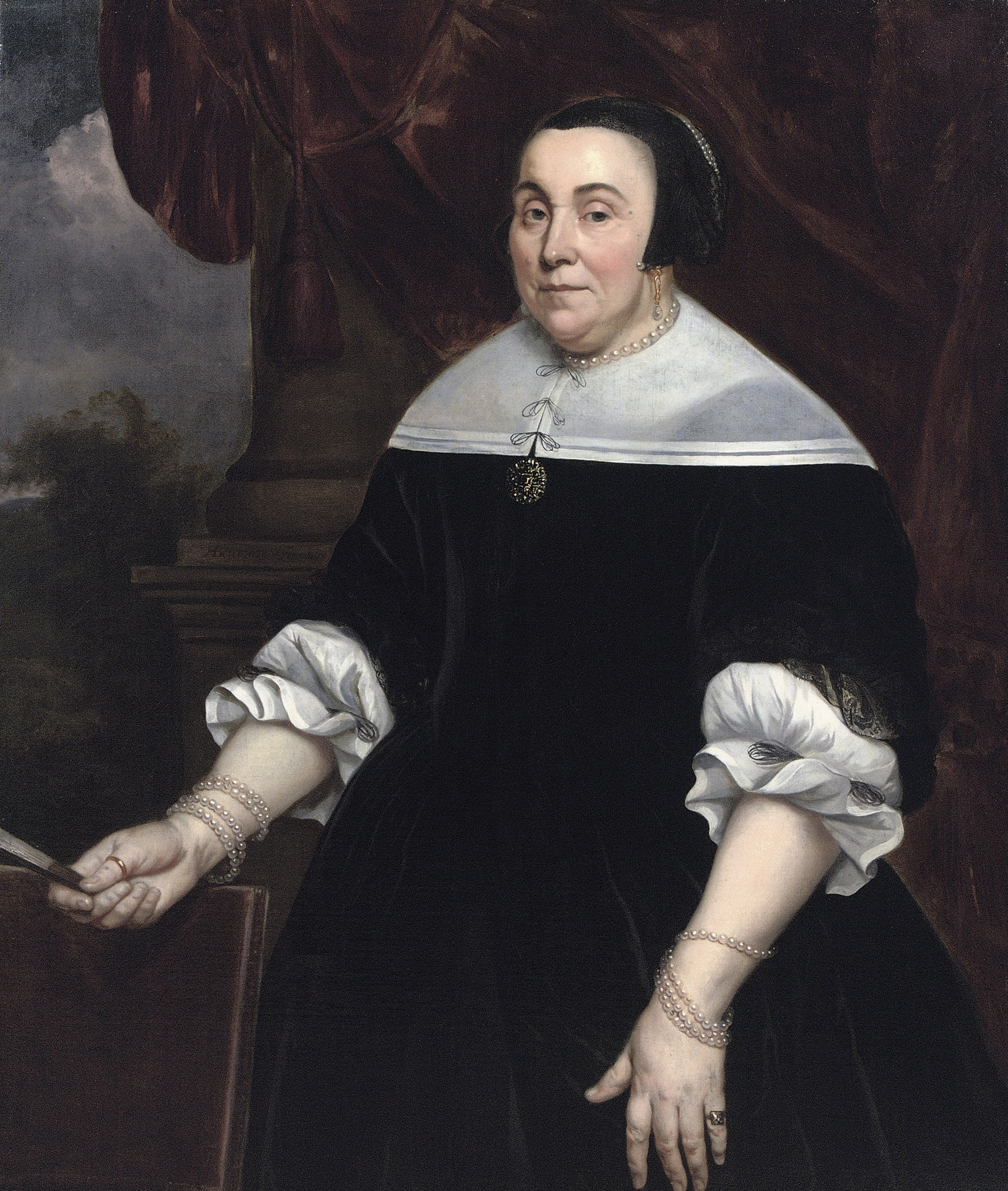 Anna van Gelder, third wife of Michiel de Ruyter, three-quarter-length, in a black dress with a white collar and cuffs, a black headdress, standing before a curtain and holding a fan in her hand